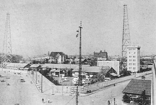 Japan Central Meteorological Observatory(present-day "Japan Meteorological Agency") circa 1930